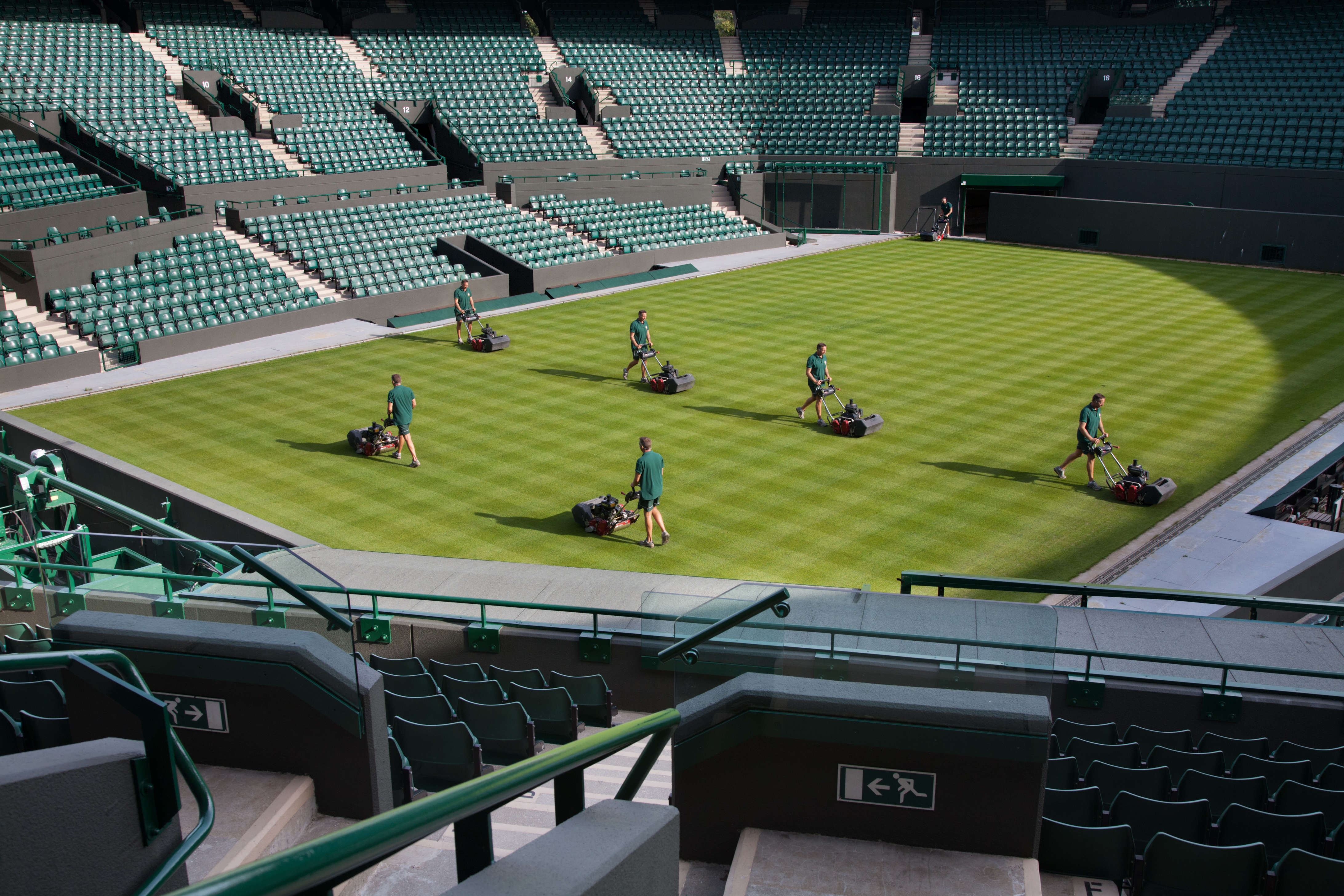 Preparing the lawn in Court #1. RATC Wimbledon, London, UK